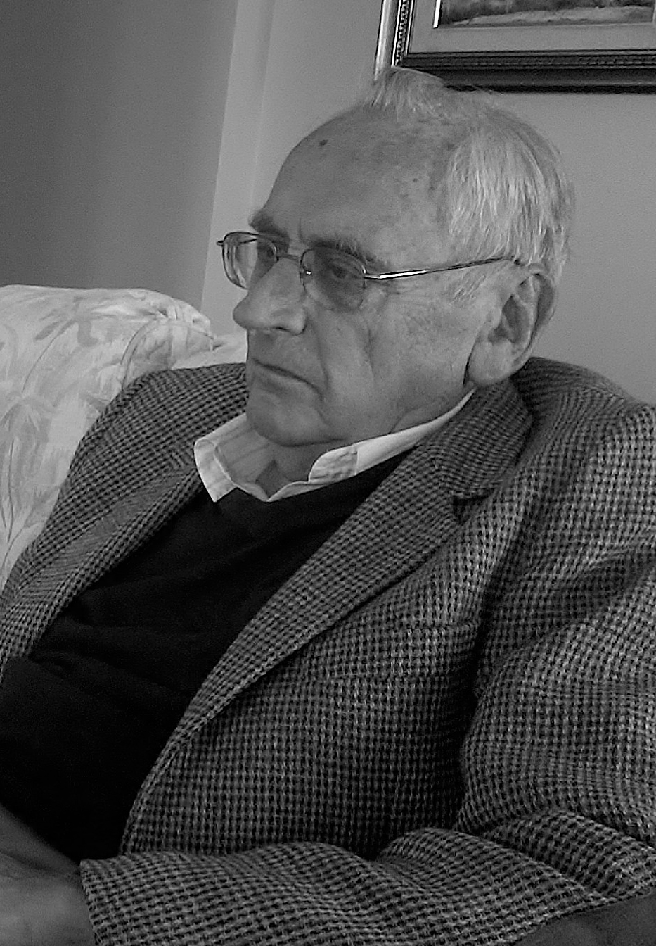 This photo was taken by Adam Powell at the home of Hans Mol in Canberra, Australia in May 2012.